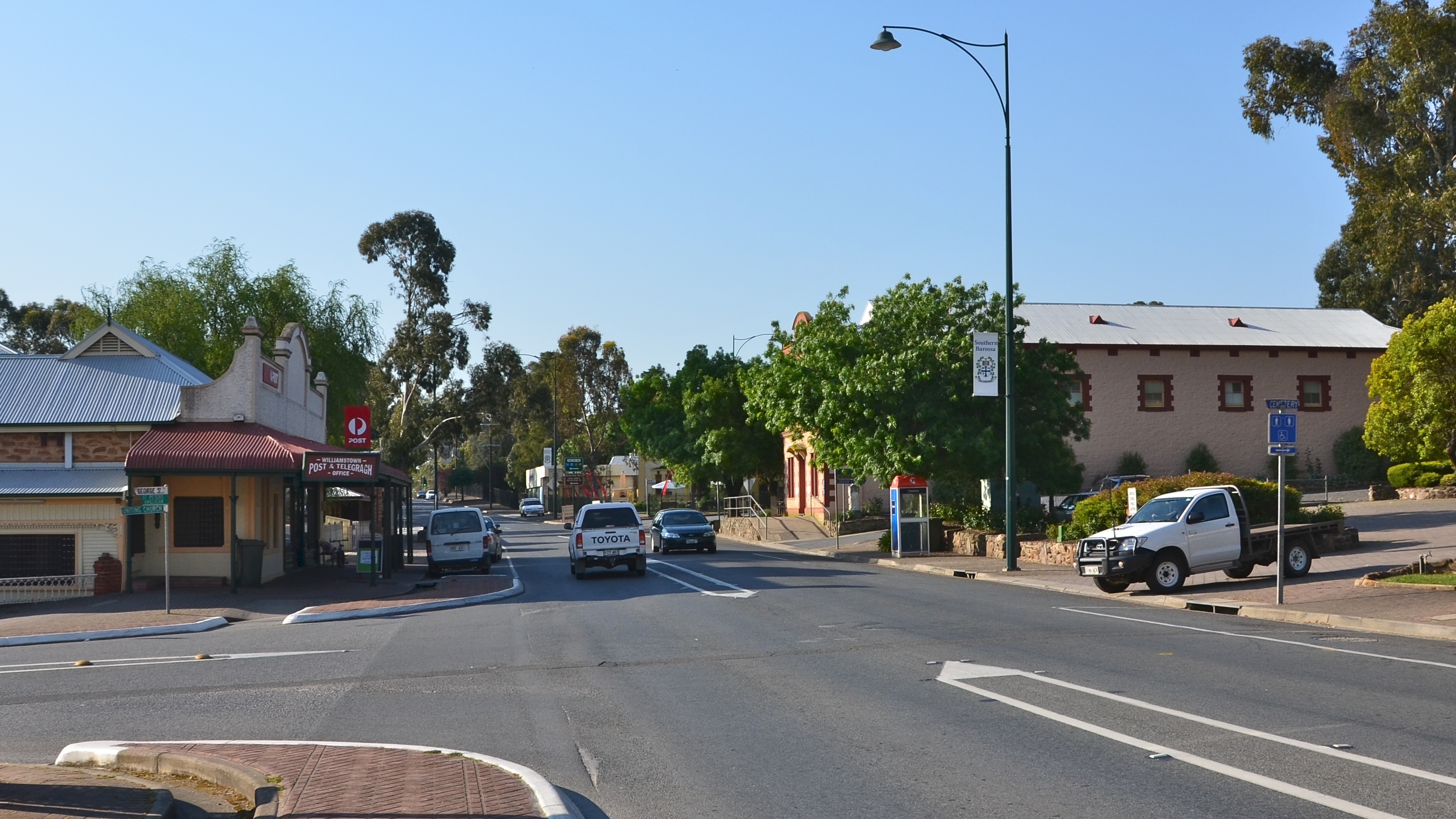 Looking north along Queen Street, the main street of Williamstown, South Australia.